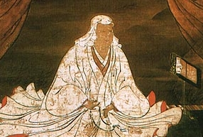 Noble lady and aristocrat from Sengoku period.